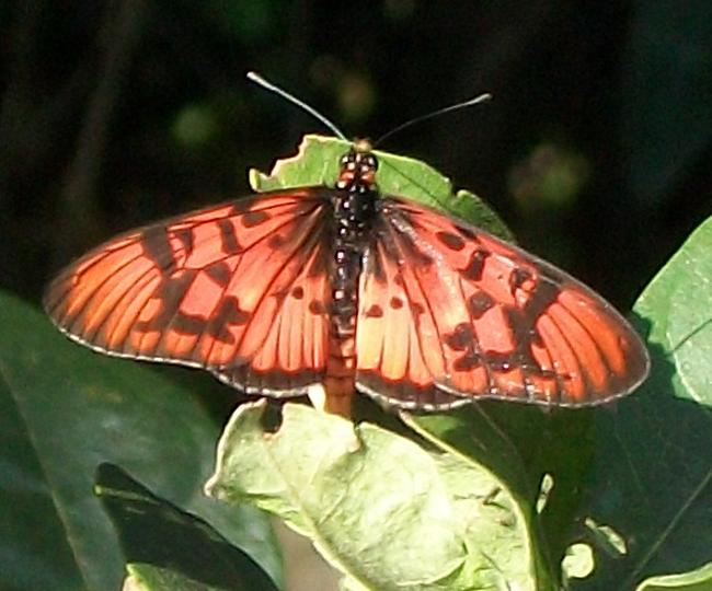 Male Blood-red Acraea, at Pigeon Valley, Durban